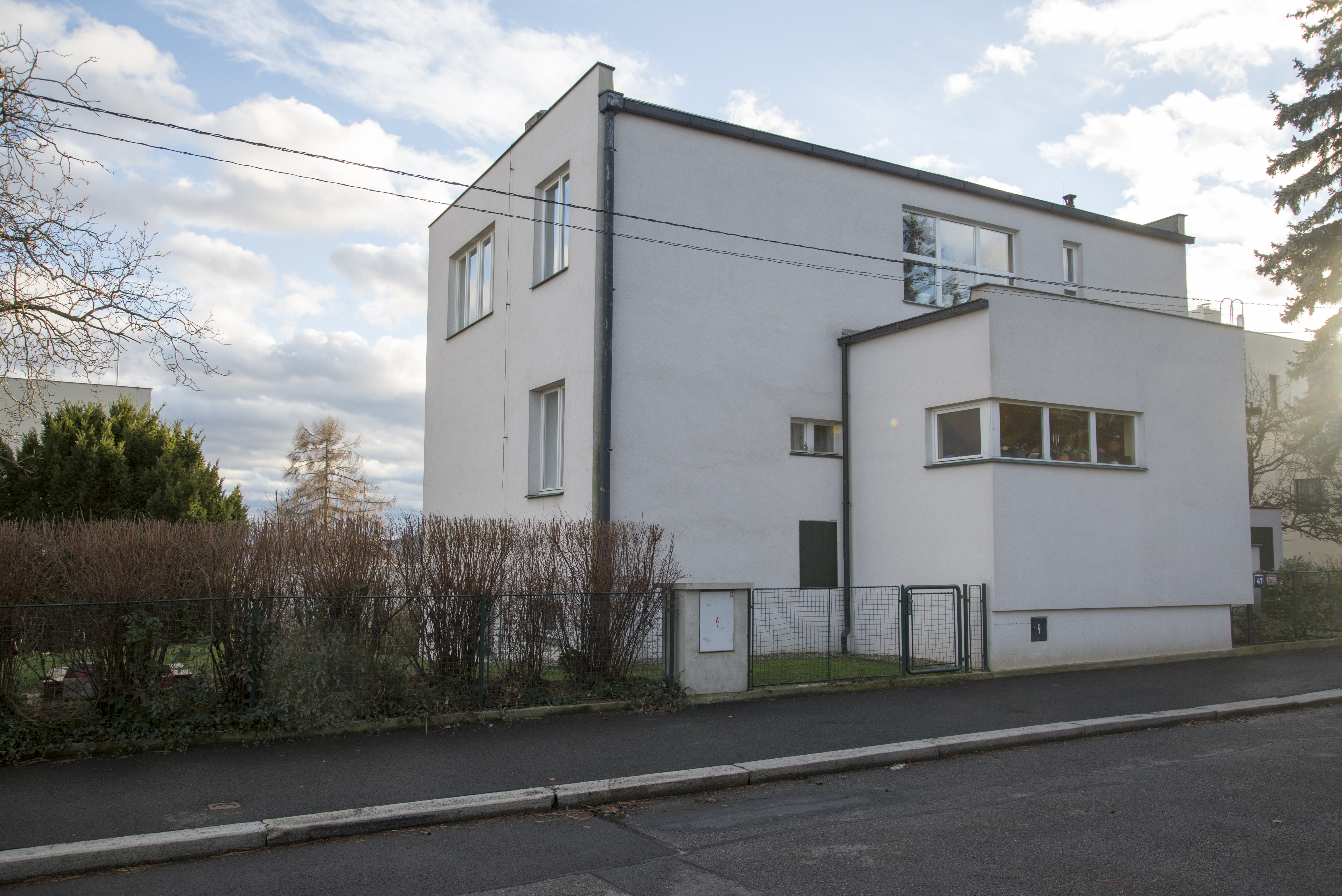 Osada Baba (Baba Functionalism colony in Prague) - House Letošník